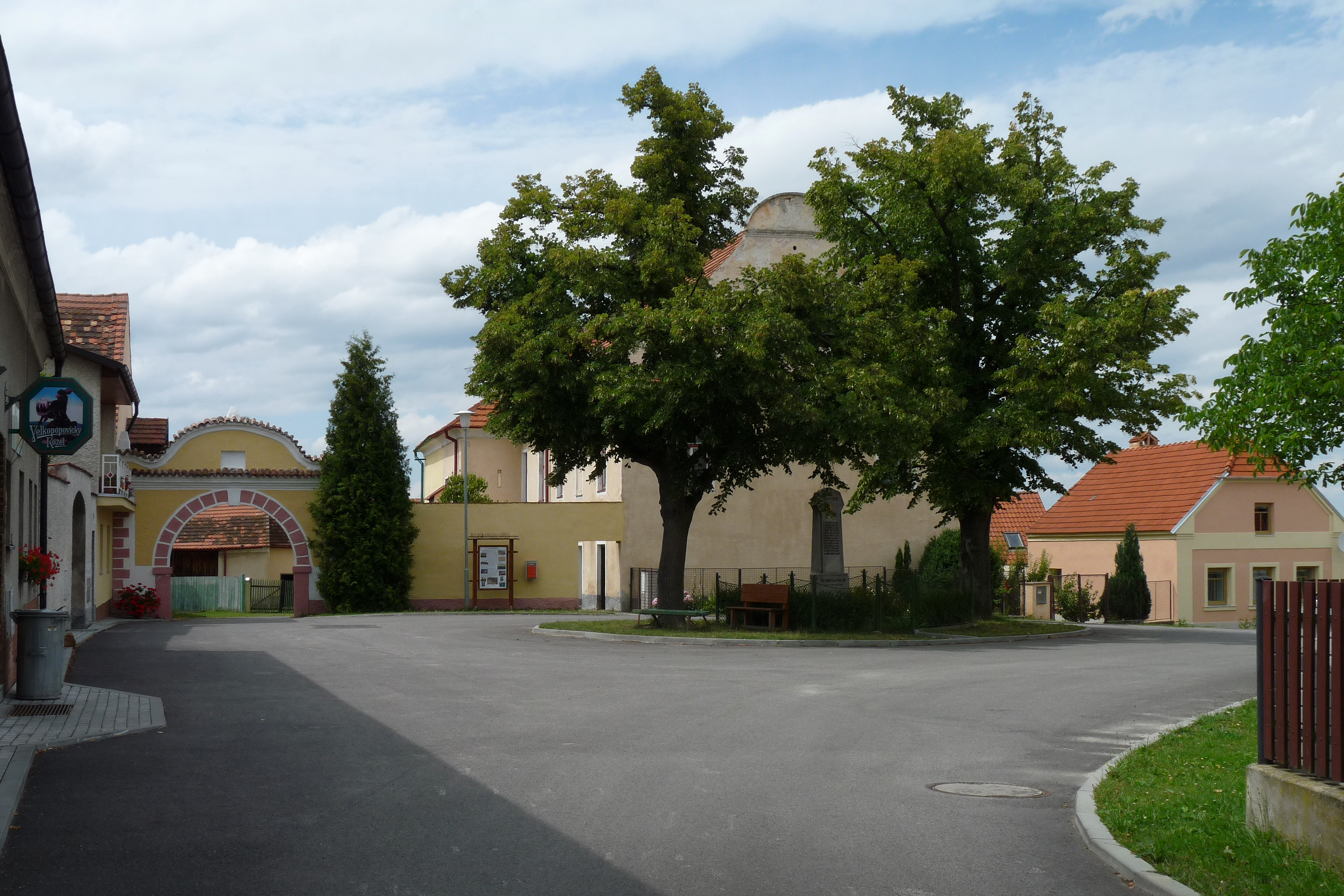 Village green in Doubravice, České Budějovice District, Czech Republic. Česky: Náves v obci Doubravice, okres Českých Budějovice.